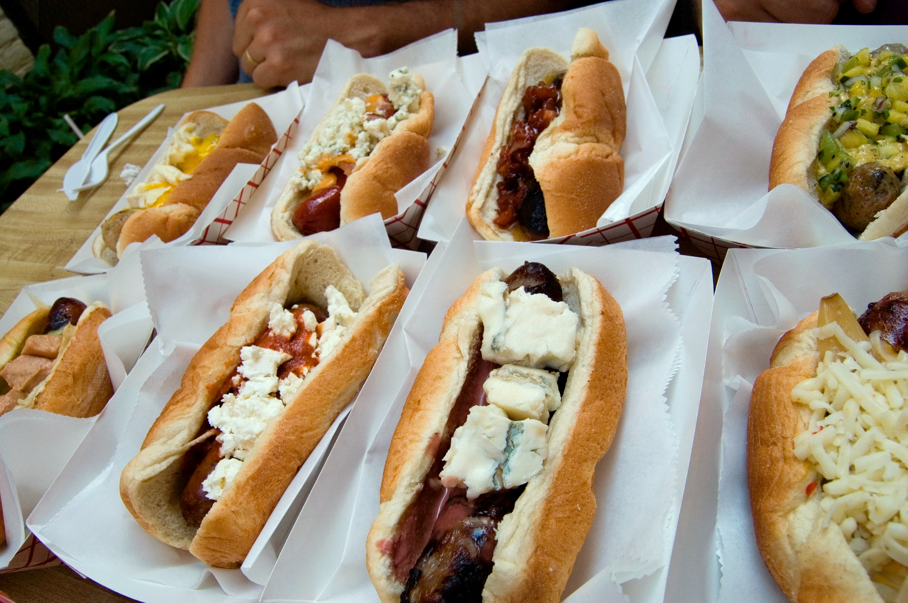 A selection of hot dogs. From left to right, top row: Roasted Garlic and Fontina Cheese Chicken Sausage with saffron dijonnaise and formager d'affinoise Buffalo Hot Dog wrapped in applewood-smoked bacon with "buffalo" mustard and crumbled blue cheese Cranberry-cognac Chicken Sausage with sweet-and-spicy mustard and dried fruit chutney Tequila Black Bean and Lime Chicken Sausage with Mexican mustard and pineapple-kiwifruit salsa Bottom row: Calvados-infused Smoked Duck Sausage with green apple butter and foie gras "butter" Merguez Lamb Sausage with harissa and feta cheese Venison, elk, buffalo, and caribou with pomegranite mustard cream and gorgonzola dolce Spicy Pork Sausage with chipotle dijonnaise, roasted garlic cloves, and pepper jack cheese